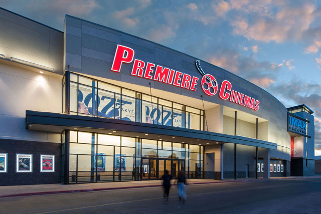 Image of the Premiere Cinemas in Lubbock for use on our Premiere Cinemas wiki page